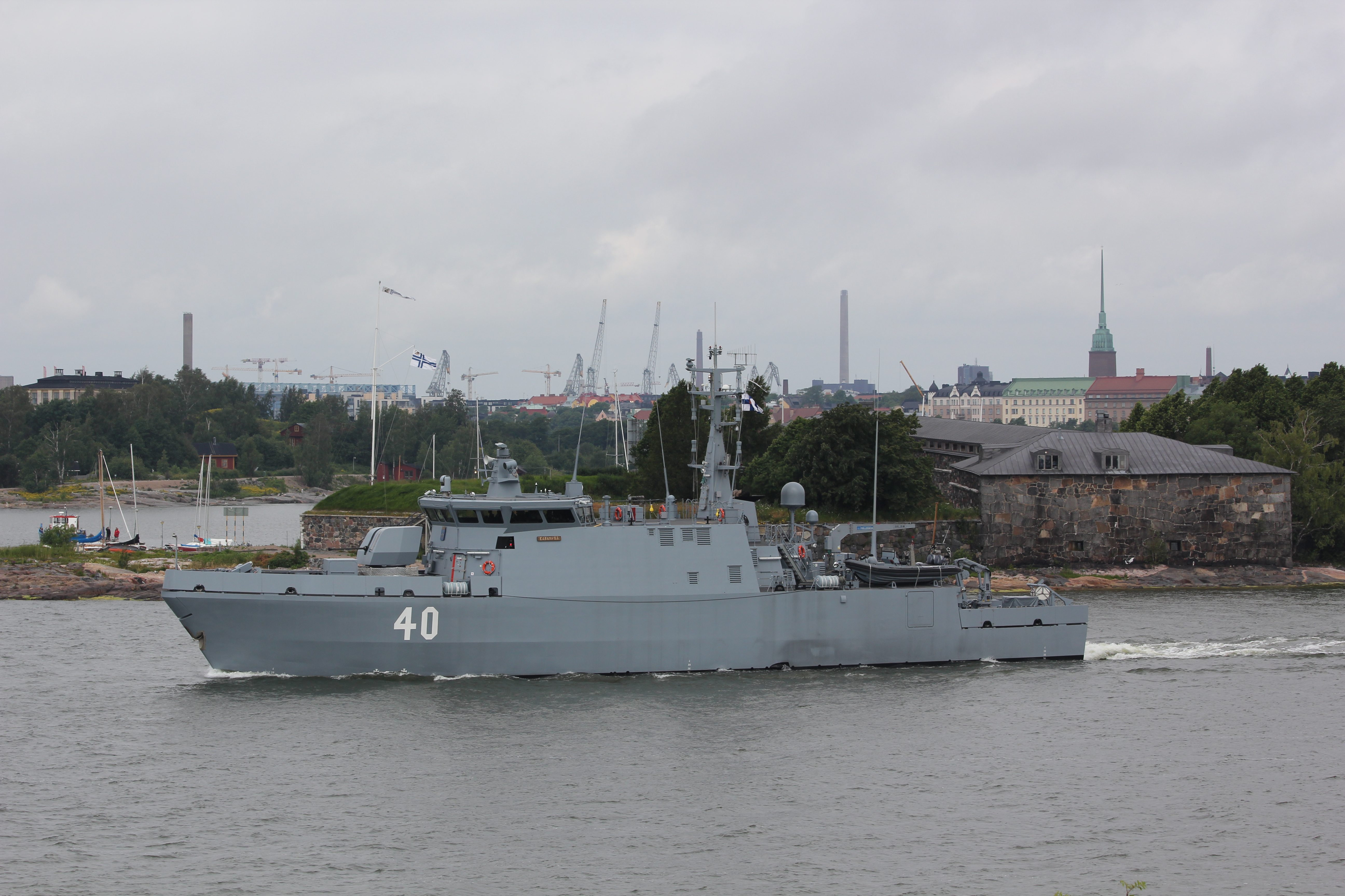 Finnish coastal mine hunter Katanpää (40) in Särkänsalmi strait on the morning after the Finnish navy 2012 anniversary parade.